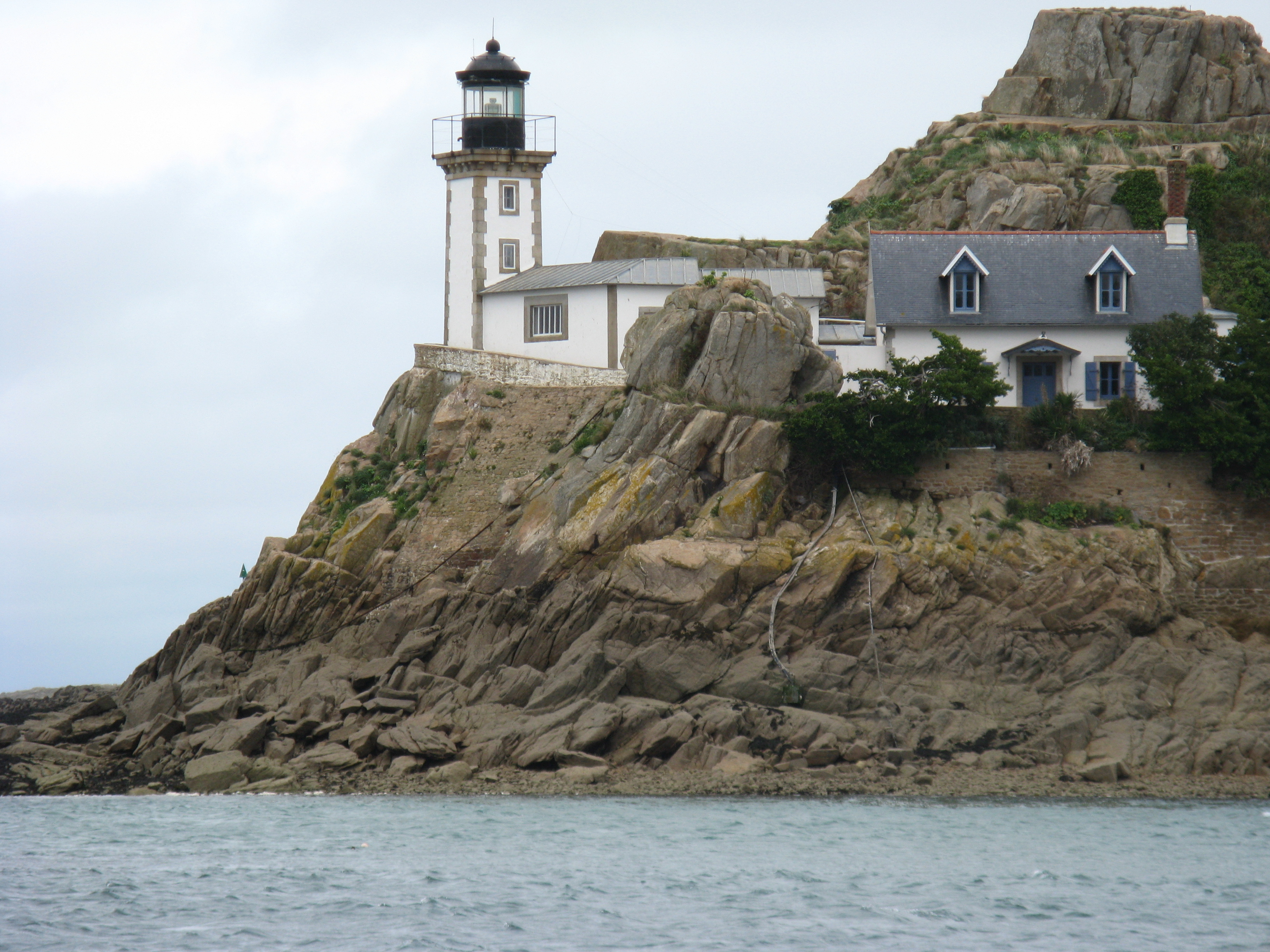 The Louët island in the Morlaix bay